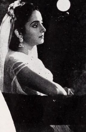 Mumtaz Shanti